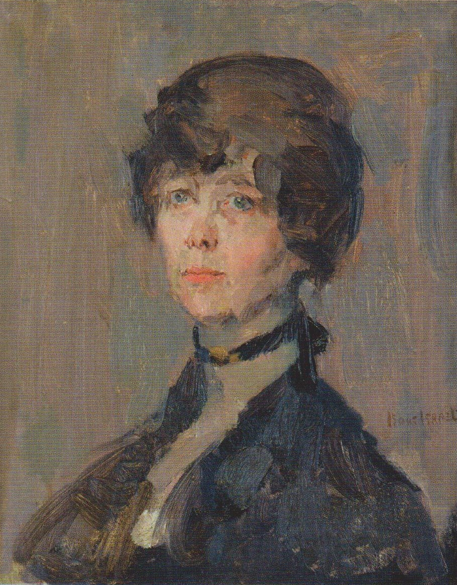 Dutch writer Ina Boudier-Bakker (1875-1966). Location: Nederlands Letterkundig Museum, Den Haag (the Netherlands)